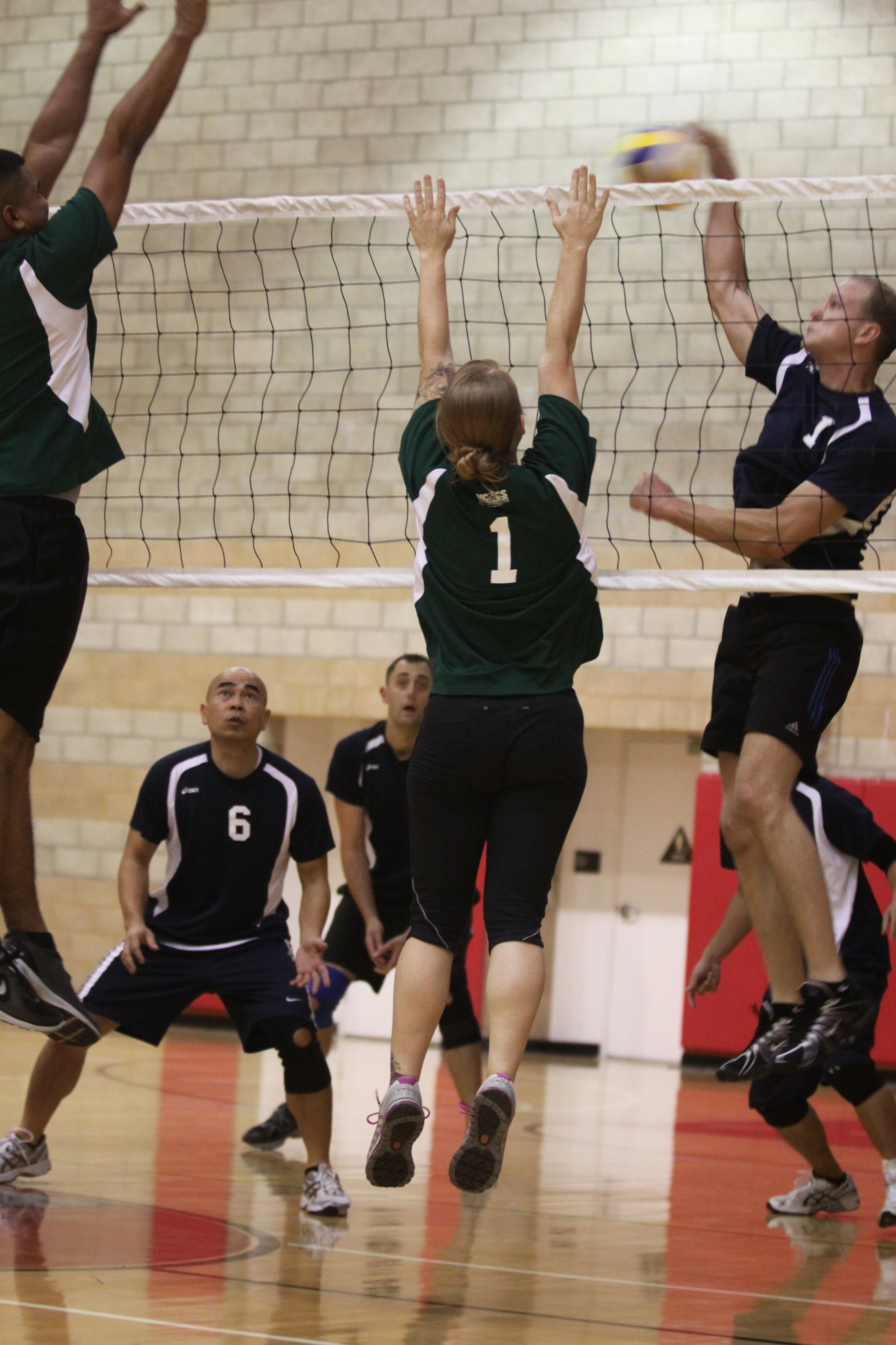 Yevgeniy Vosnev (right), Naval Hospital Camp Pendleton Planet Hollywood's setter, spikes the ball over the net during the 2010 Pendleton Cup Volleyball League finals, Oct. 25. The two finalists competing for the title were Planet Hollywood and Combat Logistics Regiment 15's Supply Battalion. The Naval Hospital's relentless ambition won them the five-game series with a total of four wins and one loss.